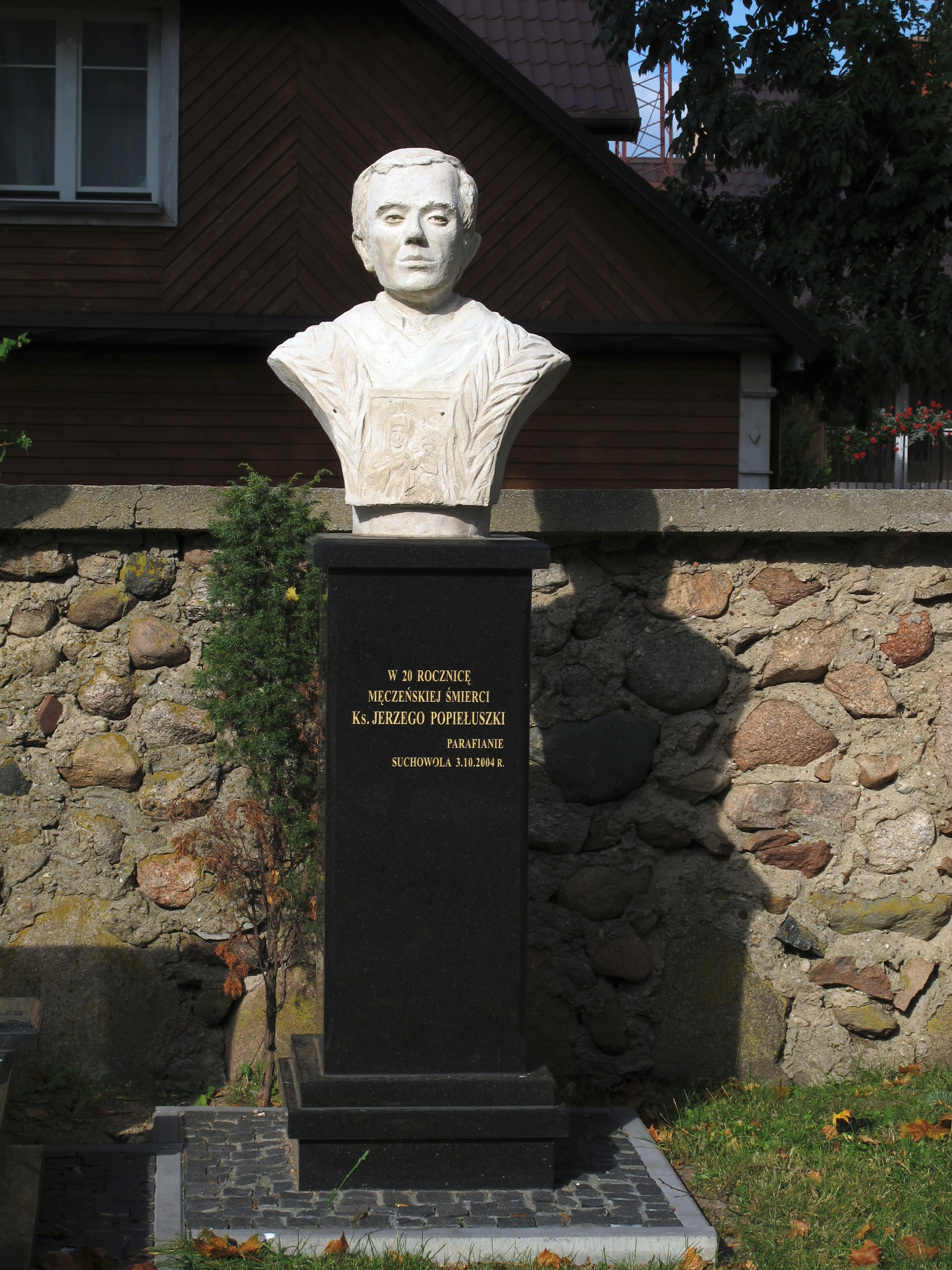 Jerzy Popiełuszko monument by Saints Peter and Paul church by Kościuszki sq. 3 in Suchowola, gmina Suchowola, podlaskie, Poland